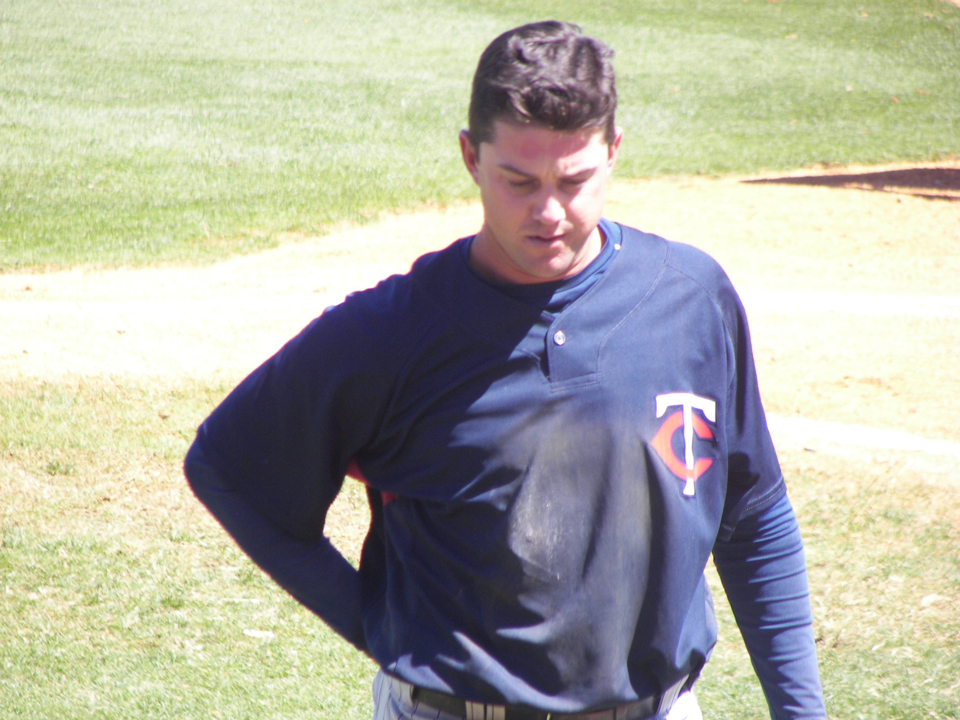 Minnesota Twins infielder Glenn Williams during a Twins/Pittsburgh Pirates spring training game at McKechnie Field in Bradenton, Florida.